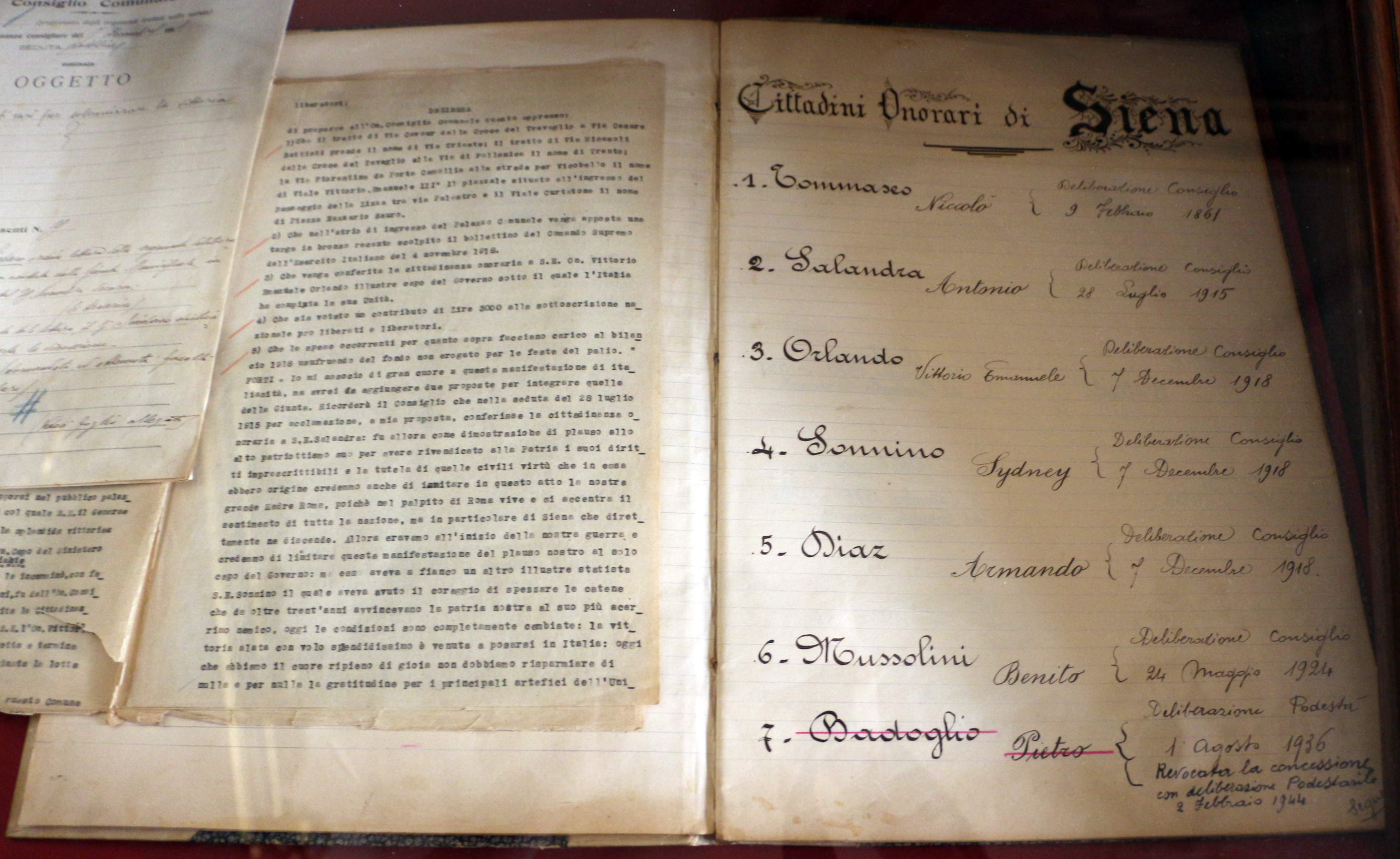 Archivio di Stato (Siena)